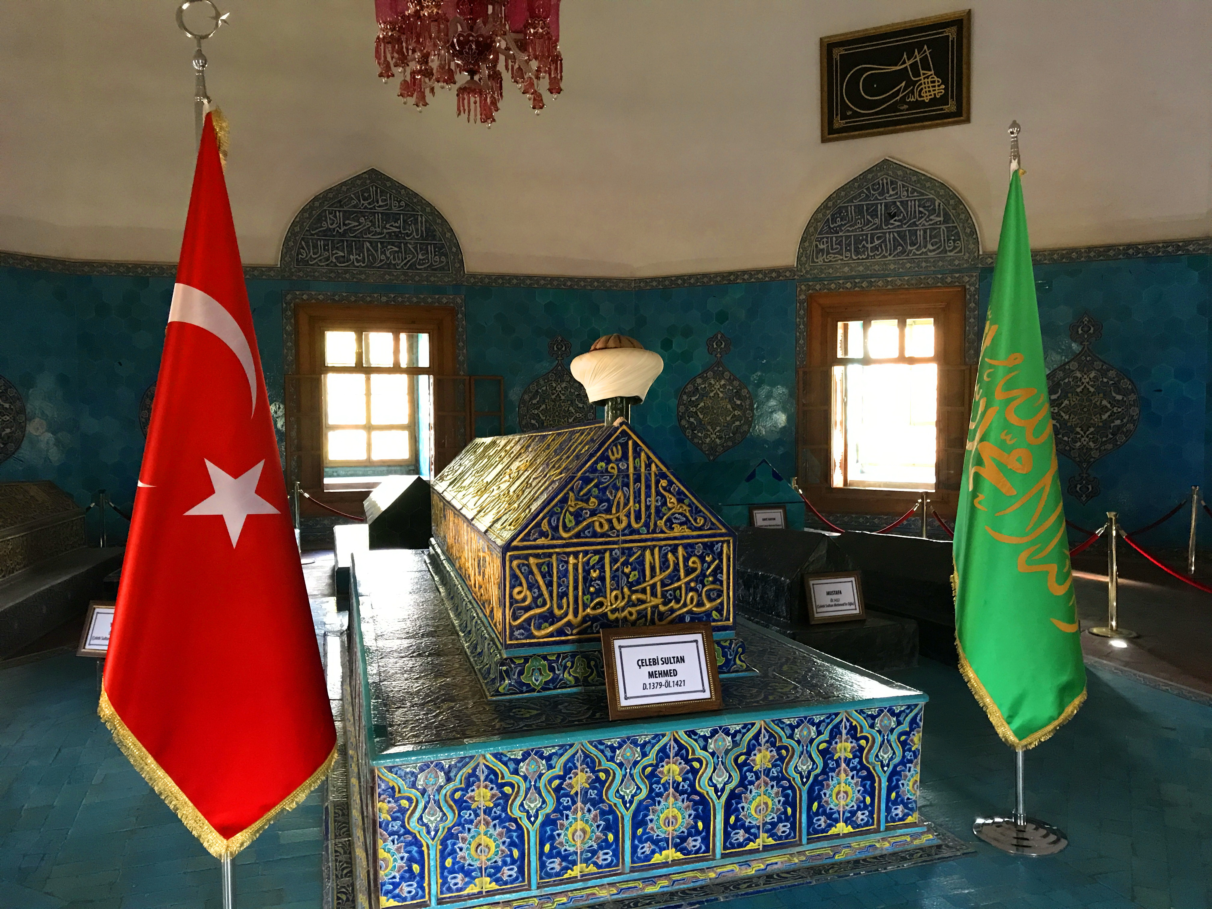 The Green Tomb (Yeşil Türbe) is a mausoleum of the fifth Ottoman Sultan, Mehmed I, in Bursa, Turkey. It was built by Mehmed's son and successor Murad II following the death of the sovereign in 1421. The architect, Hacı Ivaz Pasha designed the tomb and the Yeşil Mosque opposite to it